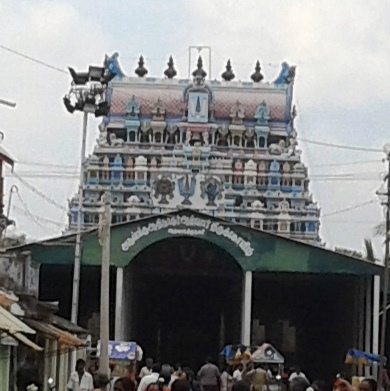 Azhwar thirunagari